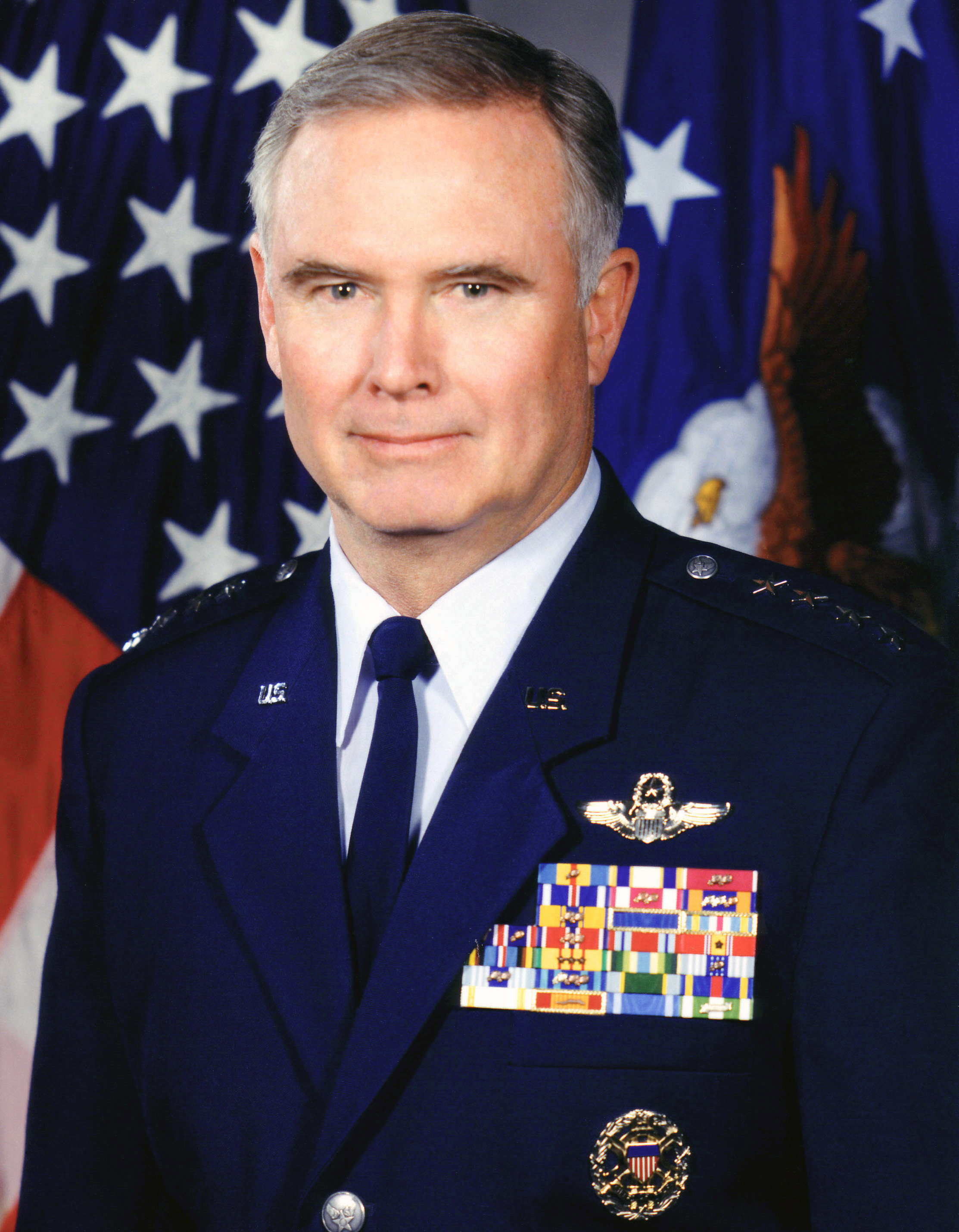 Michael Ryan, former Chief of Staff of the U.S. Air Force.